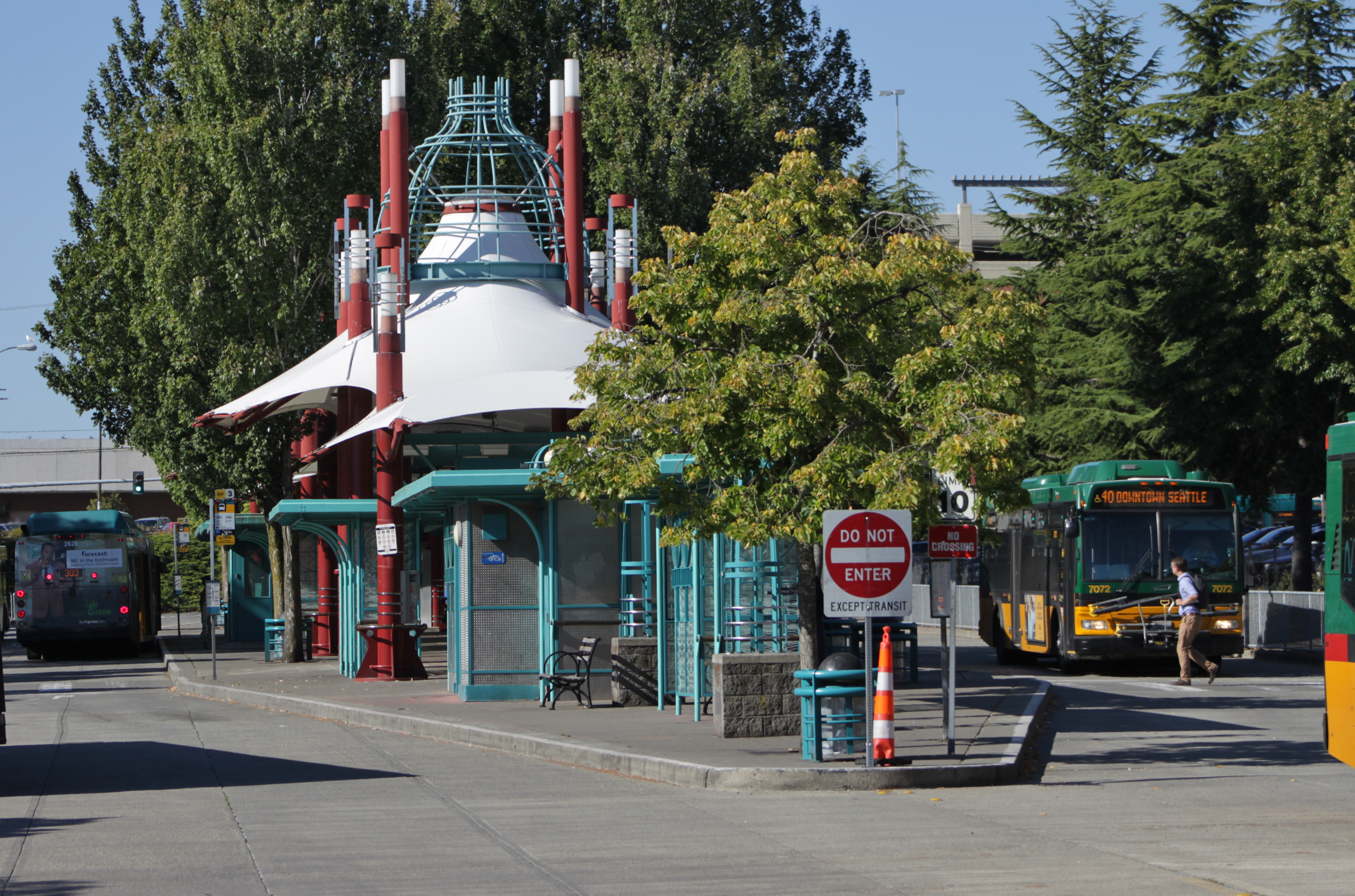 Northgate TC